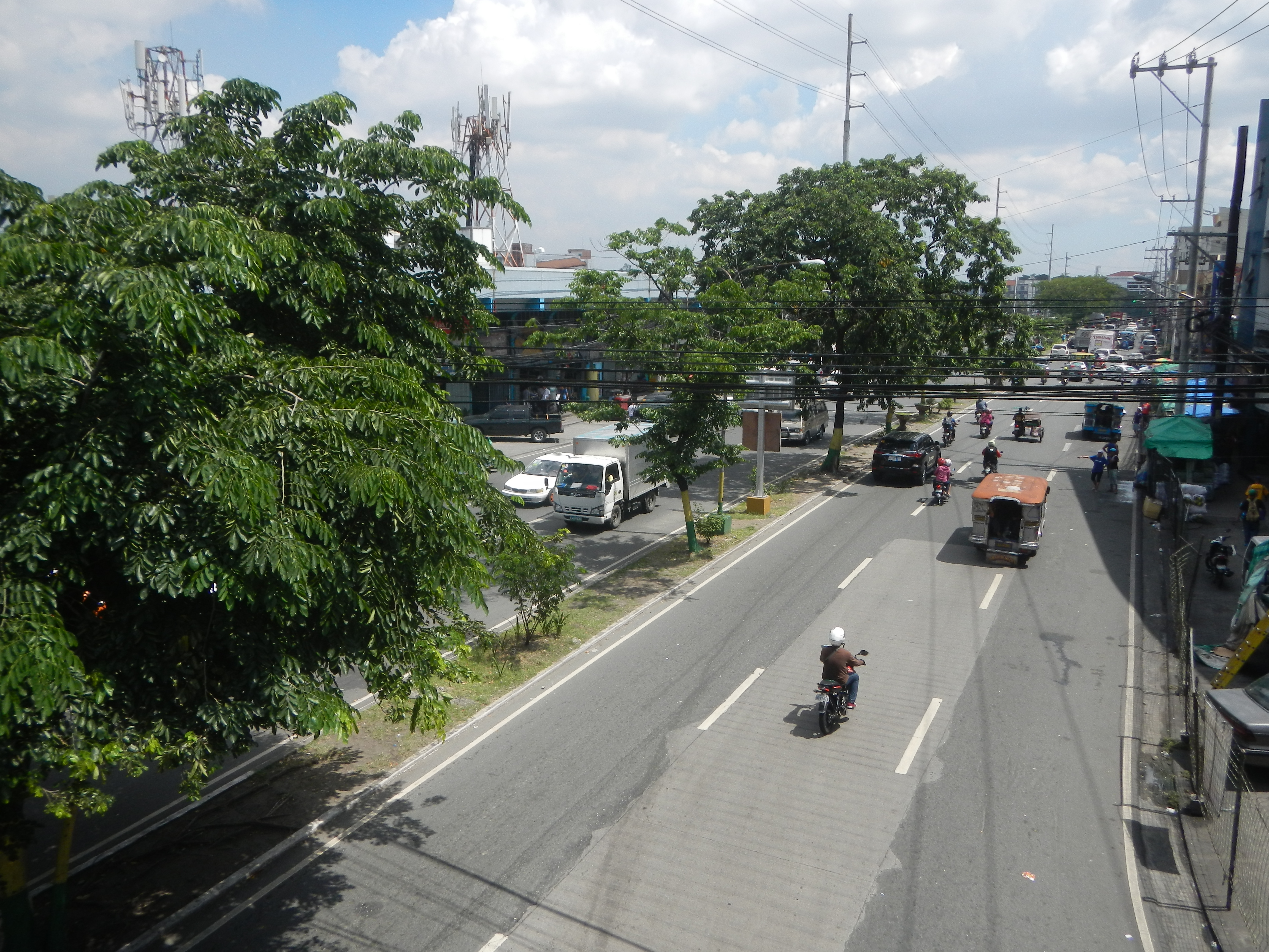 Congressional Avenue (is located in List of barangays of Metro Manila, Legislative districts of Quezon City District 1, Barangays of Quezon City Barangay Katipunan (Muñoz), in front of Barangay Bahay Toro, Project 8, District 1, Quezon City; surrounded by the List of rivers and estuaries in Metro Manila San Juan River (Metro Manila) tributary of Pasig River, Esteros de Bahay Toro-Bago Bantay-Culiát, Quezon City; from the Roosevelt LRT Station Roosevelt Avenue, Quezon City EDSA (road) Epifanio de los Santos Avenue (EDSA, Balintawak-Roosevelt Avenue, Quezon City section); Note: (Judge Florentino Floro, the owner, to repeat, Donor Florentino Floro of all these photos hereby donate gratuitously, freely and unconditionally all these photos to and for Wikimedia Commons, exclusively, for public use of the public domain, and again without any condition whatsoever).